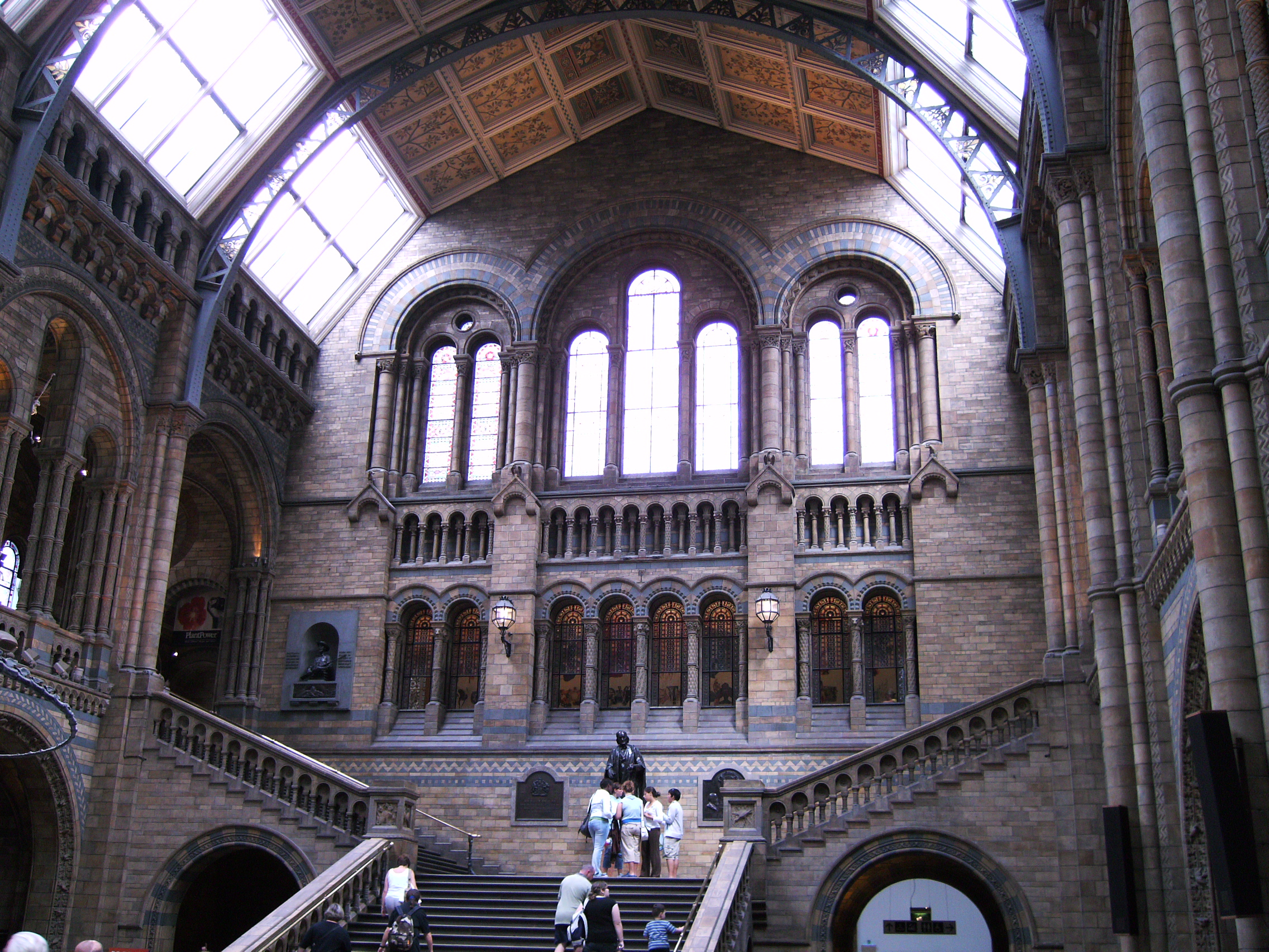 British Natural History Museum, London.